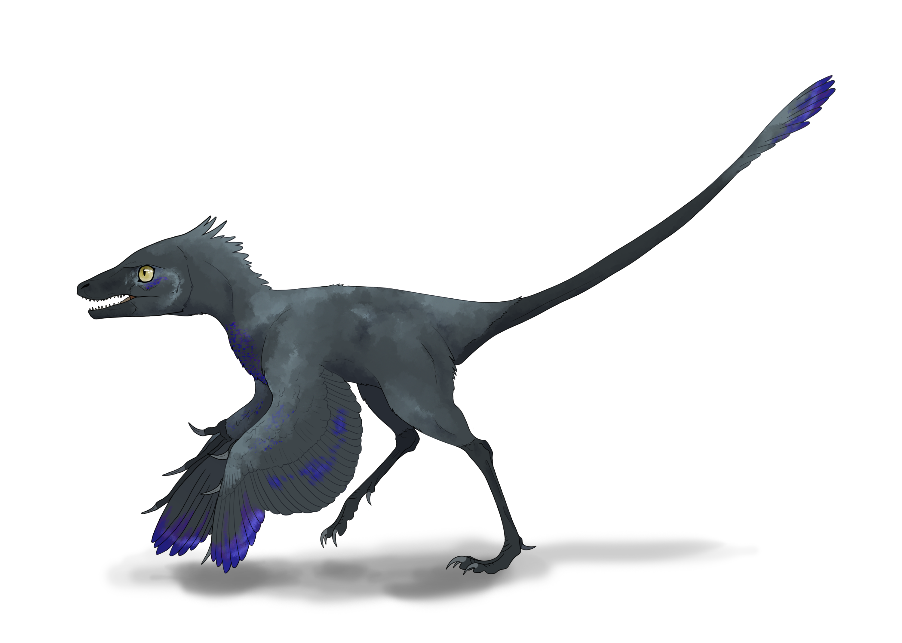 A reconstruction of Epidendrosaurus ningchengensis based on skeletal diagrams and related species.